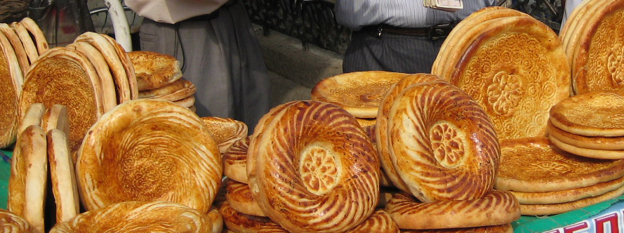 A selection of traditional Central Asian non.